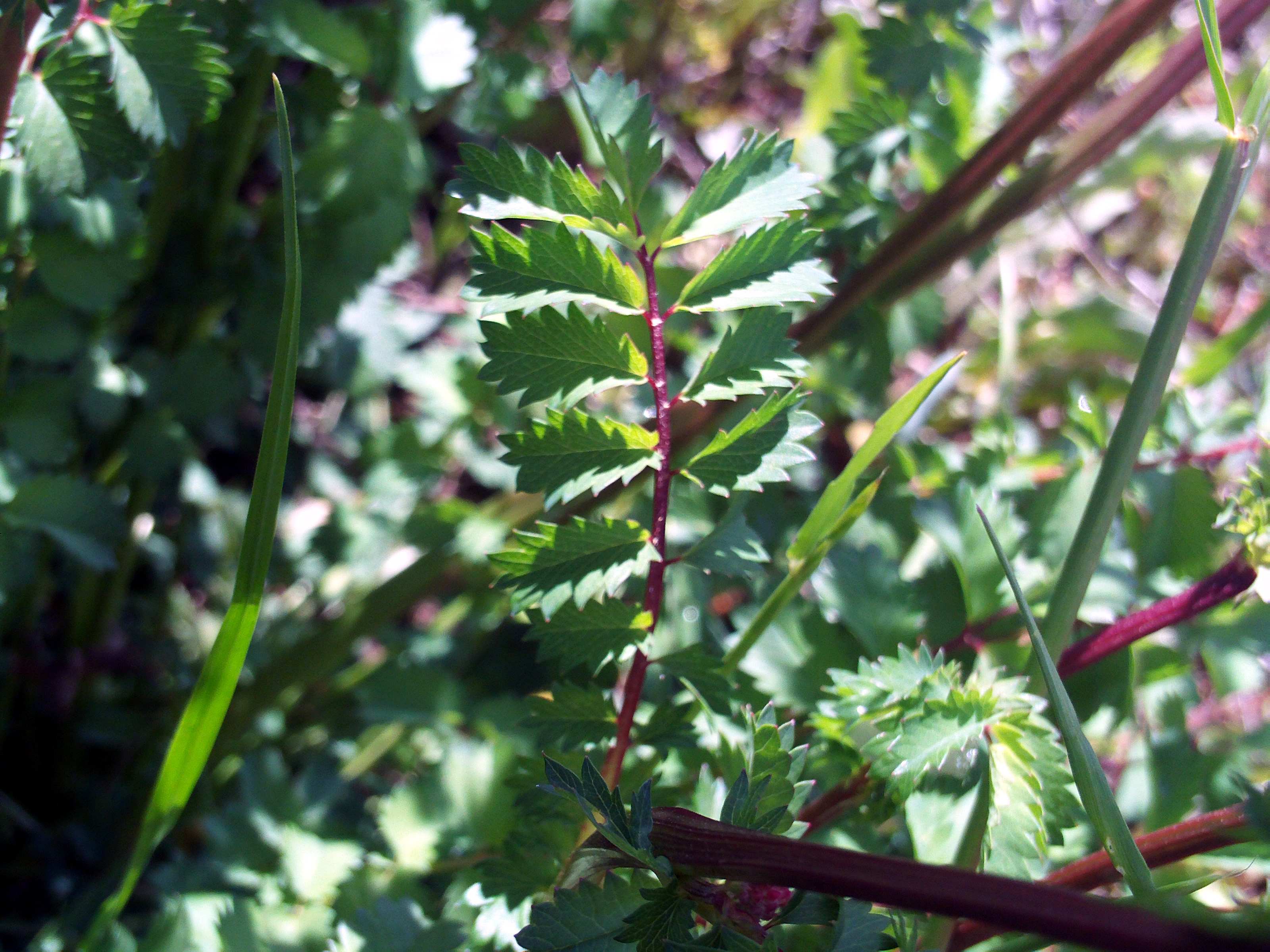 Sanguisorba verrucosa leaf, Dehesa Boyal de Puertollano, Spain